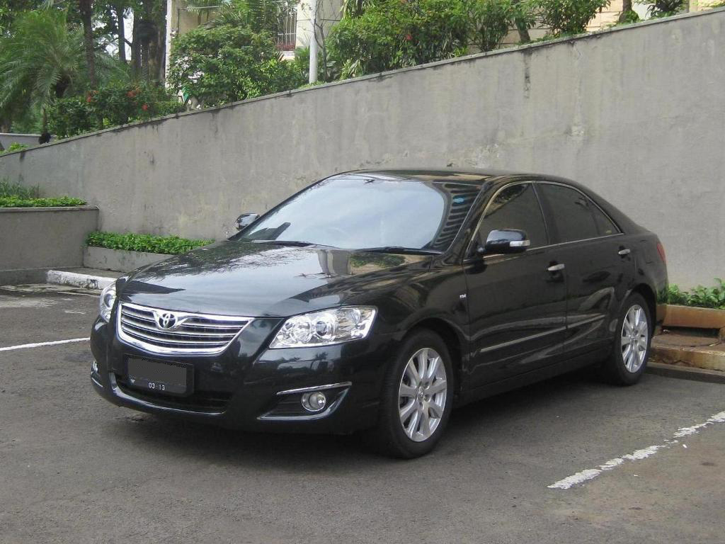 2008 Toyota Camry 2.4 V (ACV40), photographed in Jakarta, Indonesia.